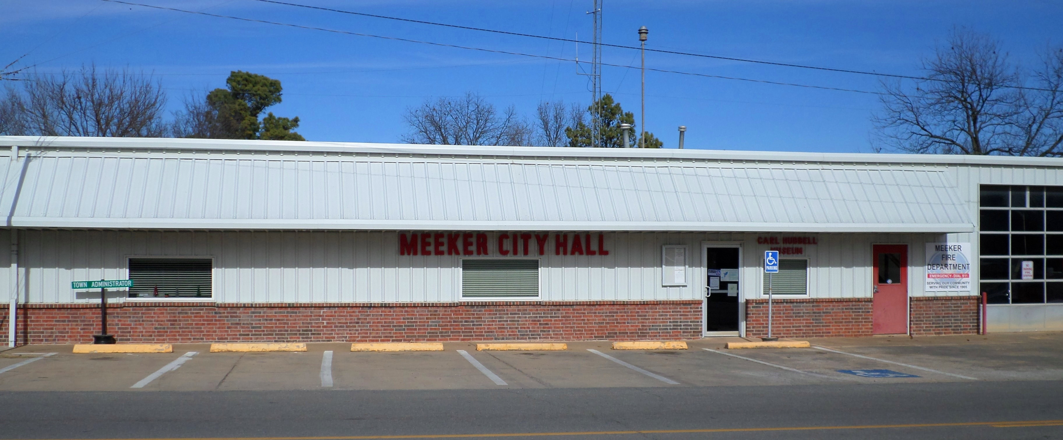 Meeker City Hall, located at 510 W Carl Hubbell Blvd, Meeker, OK.